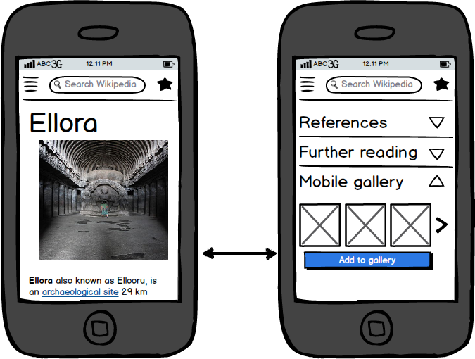 Wireframe of a mobile gallery idea. Uses File:Lead_Photo_For_User-Jdlrobson0-38245655270293355.jpg by User:Jdlrobson, CC-By-SA 3.0